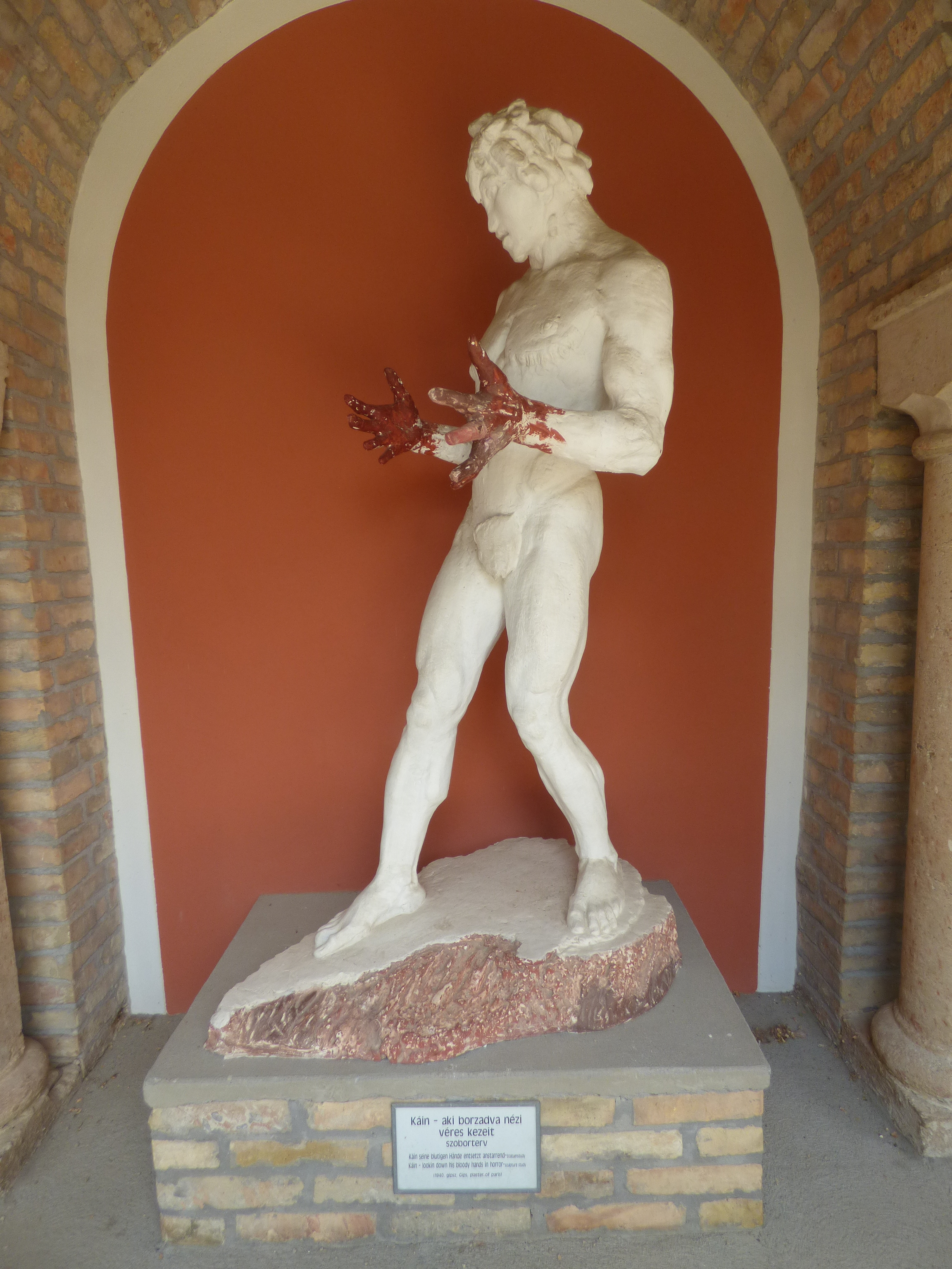 Káin szoborterv a Bory-várban, Bory jenő alkotása